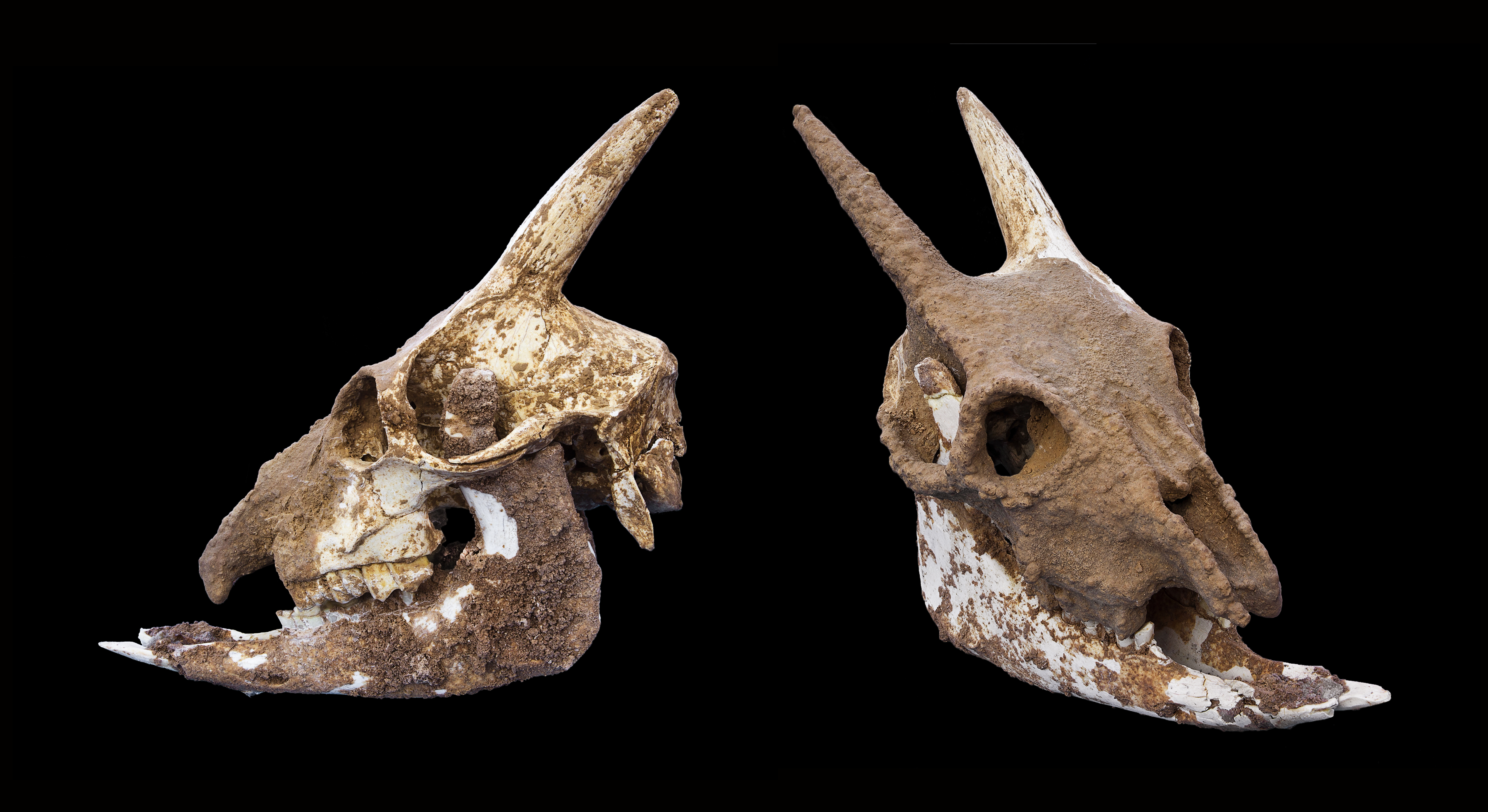 Myotragus balearicus Balearian mouse-goat - Skull Locality : Islands of Majorca, Spain Stage :Lower Paleolithic to neolithic (500.000 to 5000 years Before the Current Era) Different views of the same specimen